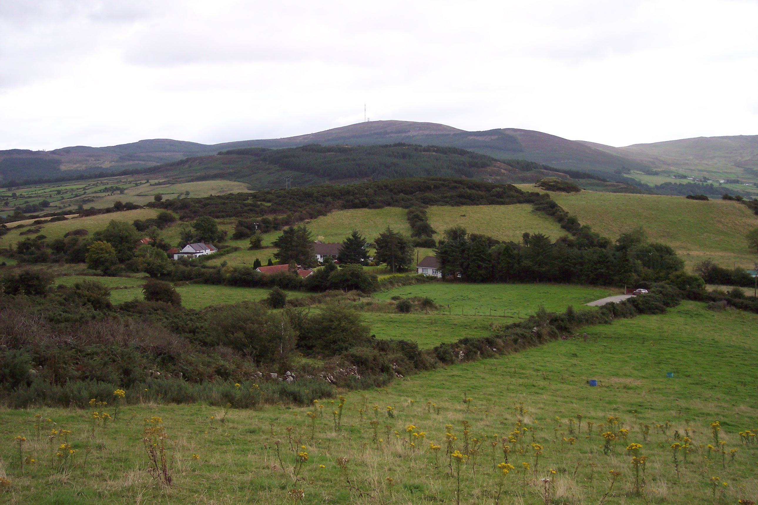 This view looks over the area covered by O'Neill's three lines of earthwork defences. Looking approximately east over the entrance to the pass.